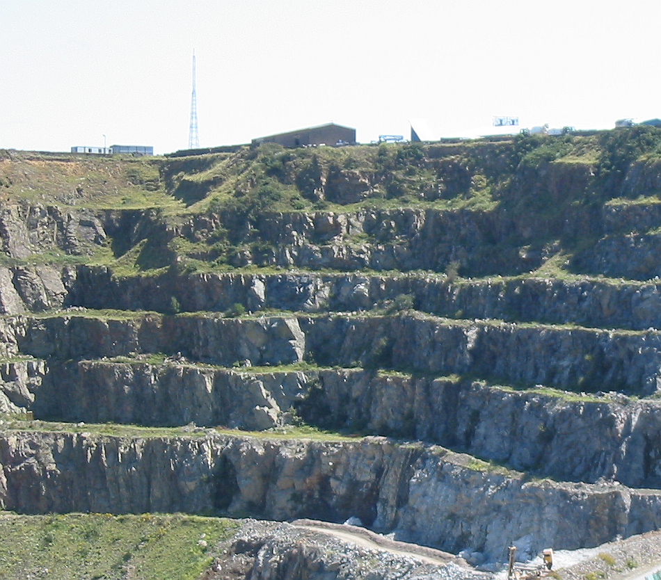 Saint John, Jersey, 3 August 2009